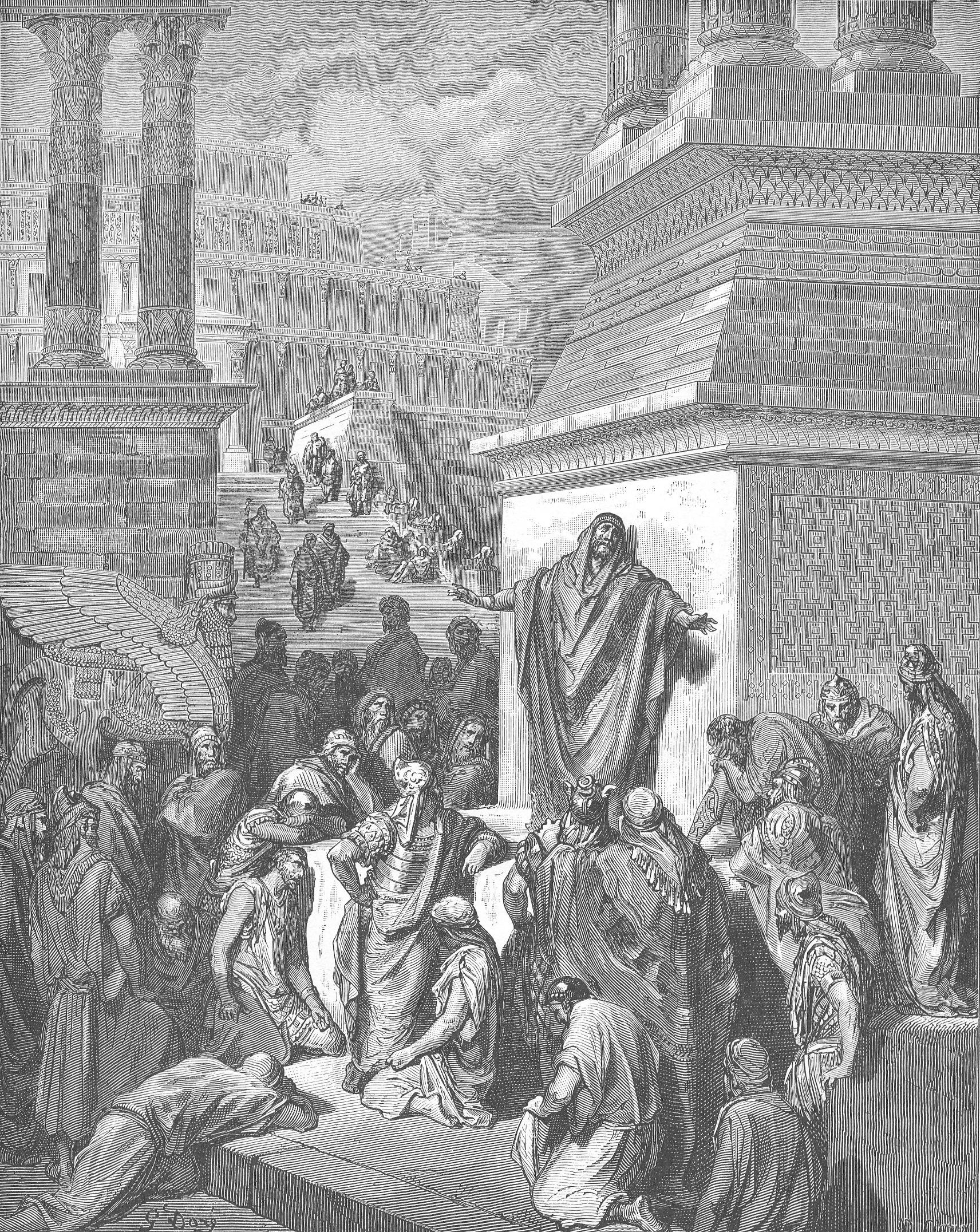 Illustration 137 from "La Grand Bible de Tours" Wikidata has entry Q24911505 with data related to the illustrations for the bible version "La Grand Bible de Tours" from which this illustration comes.